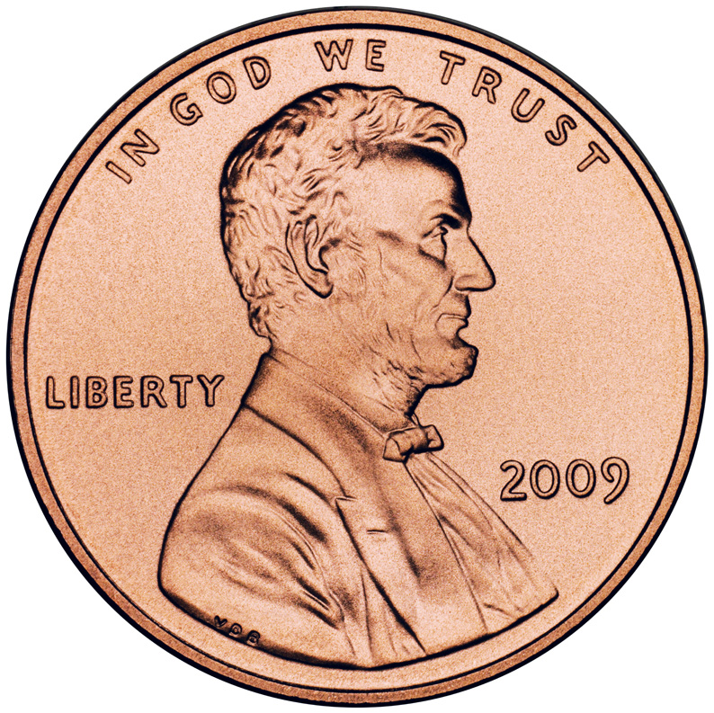 2009 US cent, obverse side.